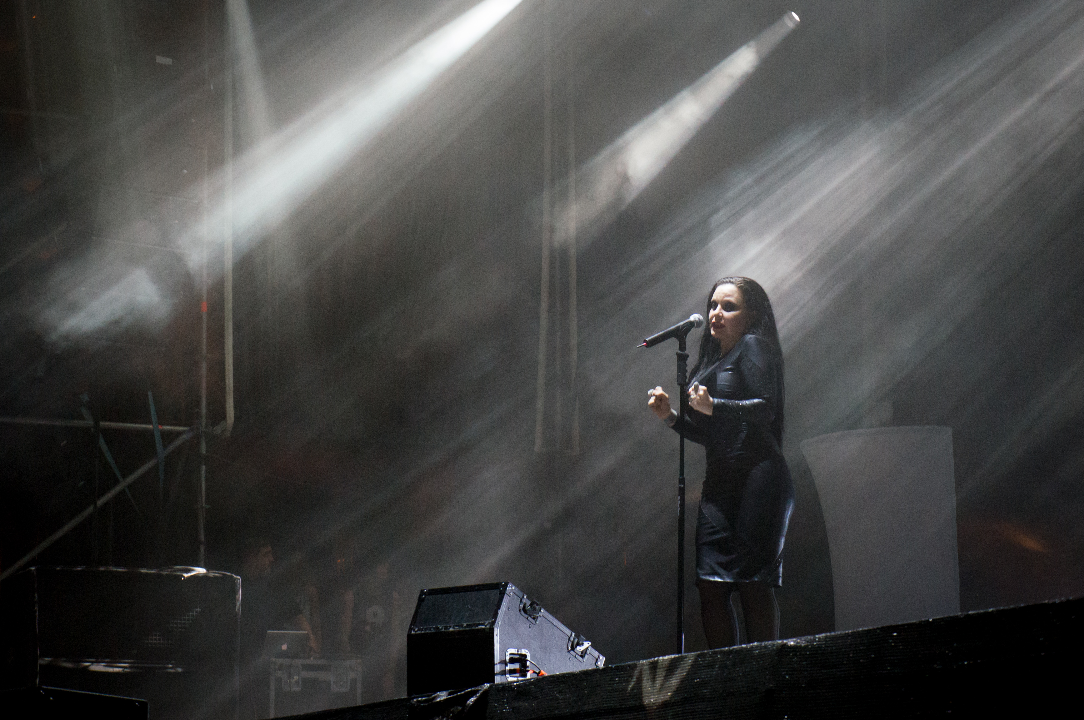 Low Cost Festival - Benidorm 28/07/2013